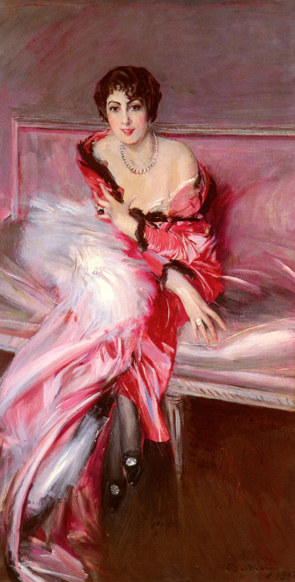 Portrait Of Madame Juillard In Red, Oil on canvas, 70 3/4 x 37 inches (180 x 94 cm)